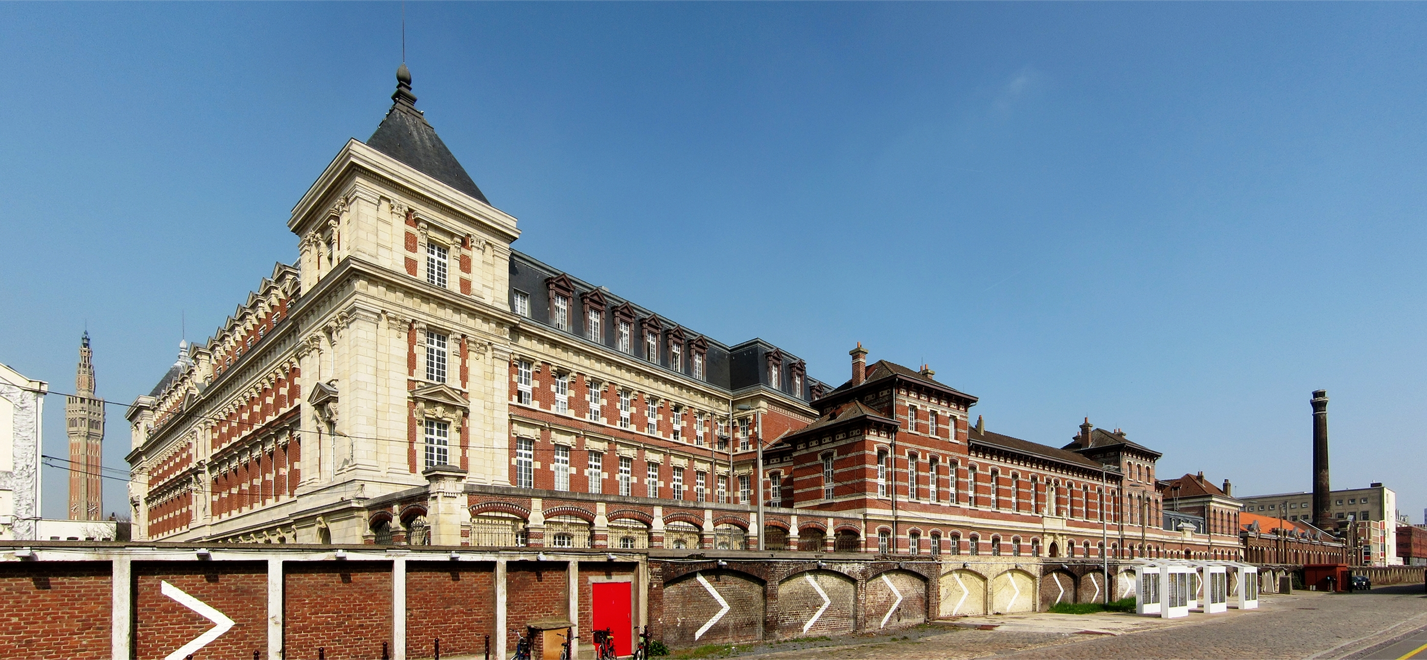 Back view of Ecole Nationale Supérieure des Arts et Métiers in Lille (Nord, France), built from 1886 by the architect Jules Batigny.